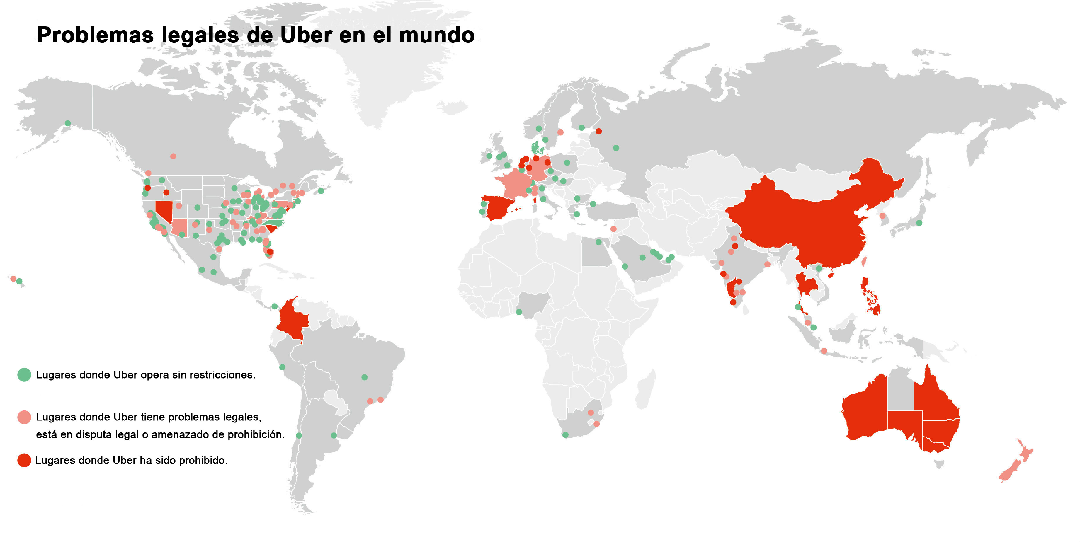 Uber's legal issues in the world (labels in Spanish).